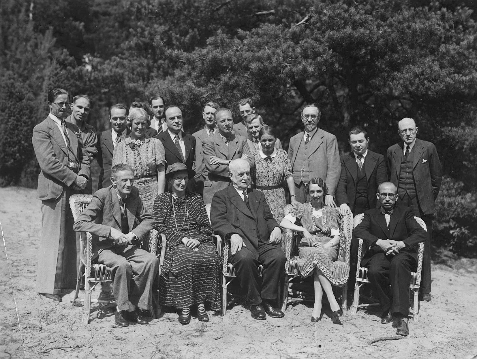 The photograph shows members of the International Council of War Resisters' International (WRI), meeting at Broederschapshuis (The Brotherhood House), Bilthoven in the Netherlands in July 1938, during the Spanish Civil War. The venue was a pacifist centre founded by Kees and Betty Boeke. The Chair of the WRI Council was George Lansbury MP (seated, centre) who was Leader of the Labour Party and Leader of the Opposition between 1932 and 1935. Identifying people in this photograph is work in progress. Names marked * are probably correct, but are as yet unconfirmed. Back row, left to right: Hagbard Jonassen (WRI Denmark), Harold Bing (WRI UK), seventh from left: Dr. Stuart D. Morris* (Peace Pledge Union), twelfth: Herbert Runham Brown (Gen. Sec., WRI), then Hem Day (Belgium) and (far right): Lord Ponsonby. Standing, eighth from left, with arms folded, Bart de Ligt.* Front row, left to right: José Brocca (WRI Spain), Ruth Fry (Treasurer, WRI), George Lansbury, Grace Beaton (Asst. Sec., WRI). Standing, immediately behind Professor Brocca and Ruth Fry: Muriel Lester.